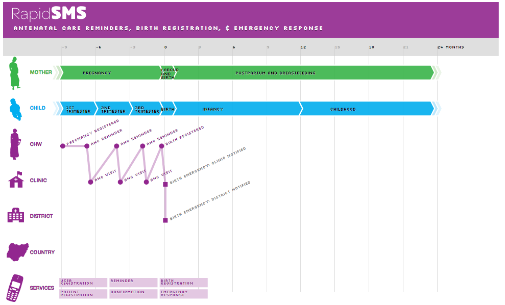 diagram of rapidsms antenatal care, birth reporting, and emergency alerting